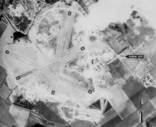 Chilbolton Airfield, England 20 April 1944 Source: Royal Ordinance Survey. Crown Copyright expired 50 years after photograph taken in 1994. Annotations on photo from Freeman, Roger A., UK Airfields of the Ninth: Then and Now, 1994